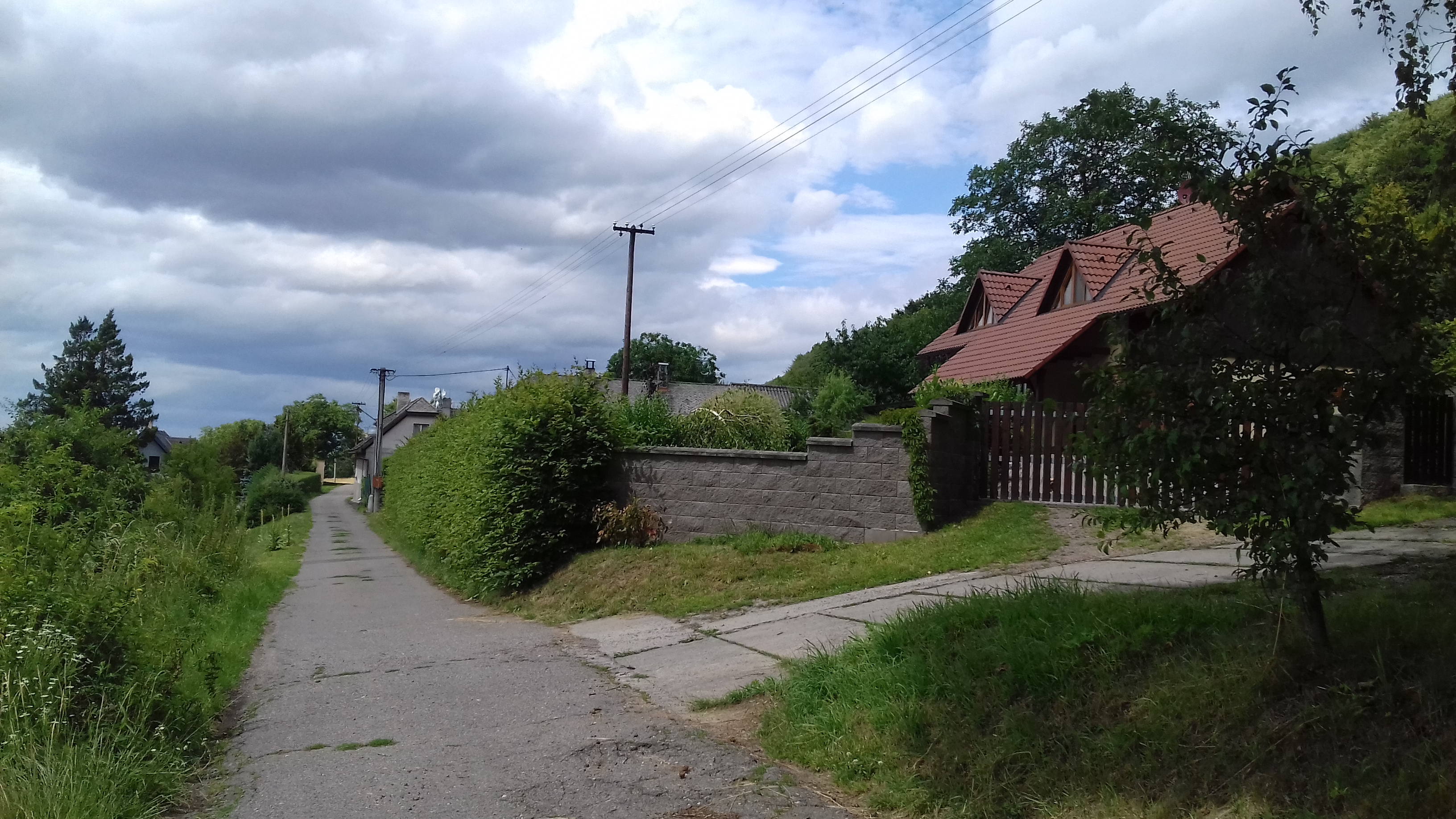 Kubíkovy Duby, neighborhood of Třemošnice, Chrudim District, Czech Republic